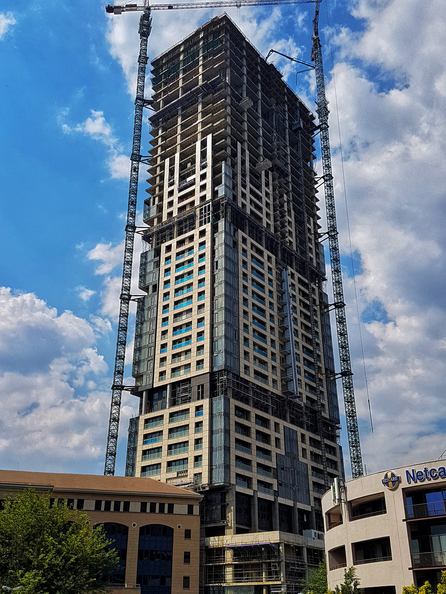 View from the intersection of Maude and West Streets, Sandton, Johannesburg.